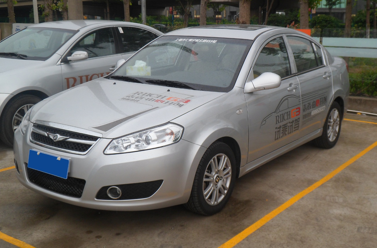 Riich G3 photographed in Shanghai, China.